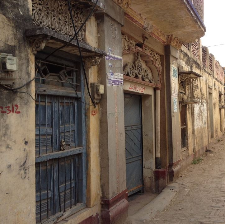 A Haveli owned by Janjua Family in Village Malowal, Gujrat, Pakistan, Owned by Haji Abdul Haq Janjua